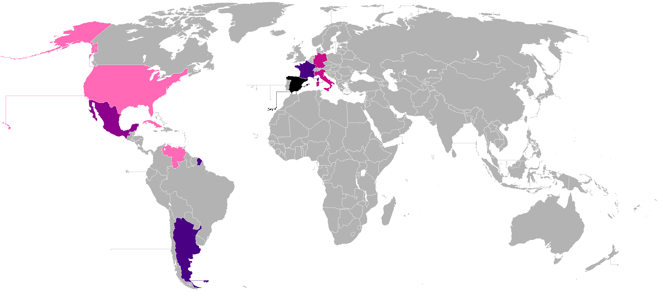 Catalan speakers in the world by countries. + 9.000.000 + de 100.000 + de 50.000 + de 25.000 + de 1.500 References